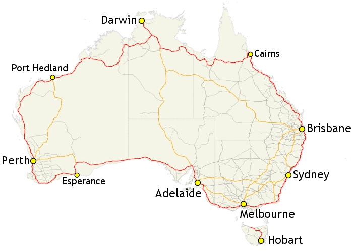 Map of Australia's Highway 1 (highlighted in red).